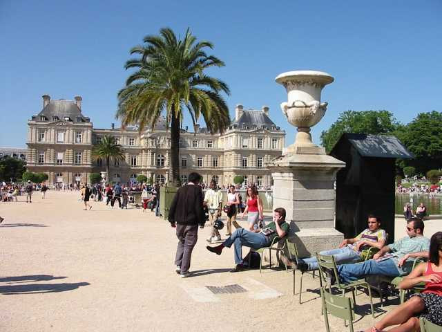 Luxembourg Palace, view from the Jardin du Luxembourg.